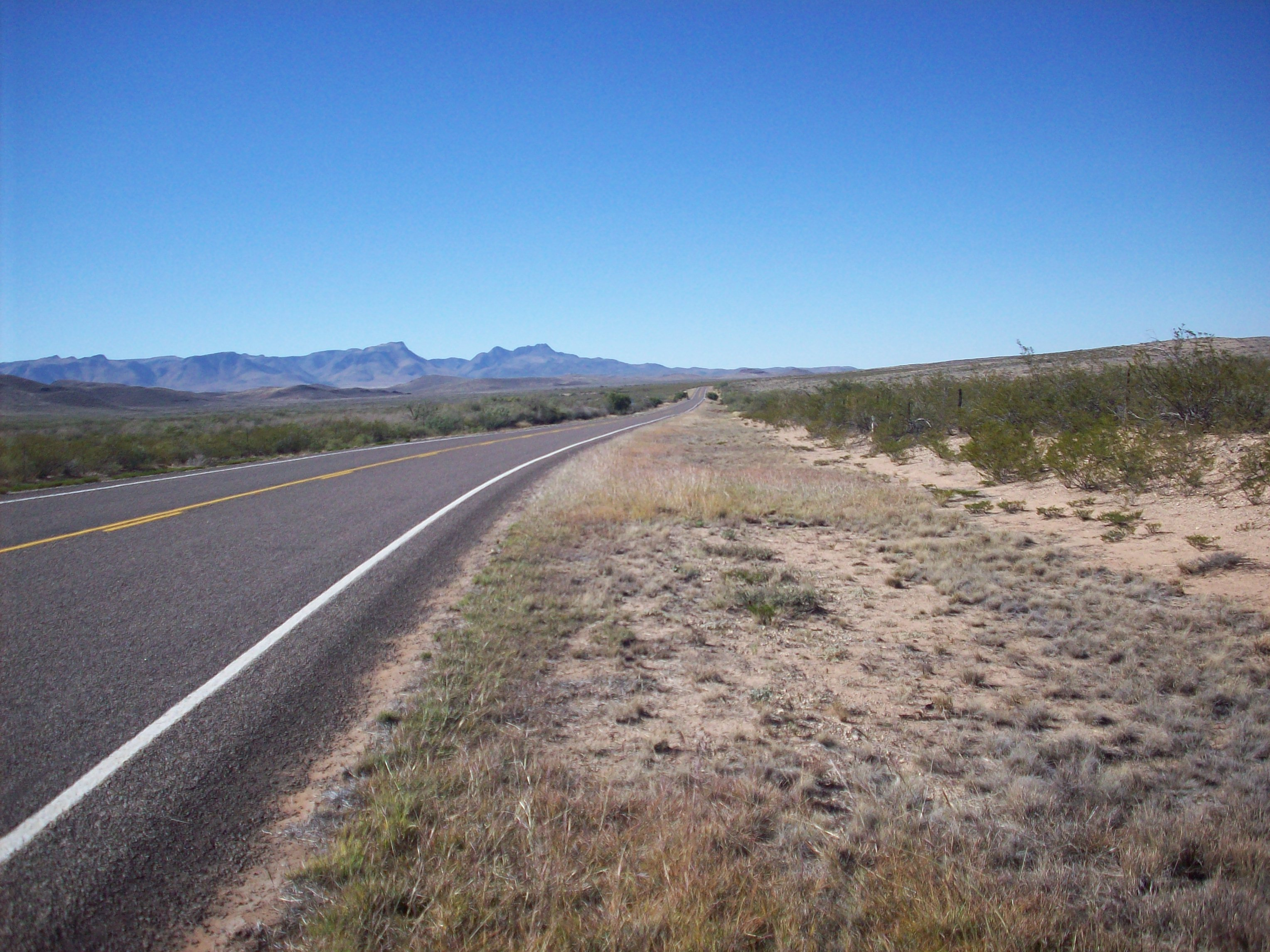 Farm to Market Road 3078 in northeast Jeff Davis County looking westward toward northern Davis Mountains